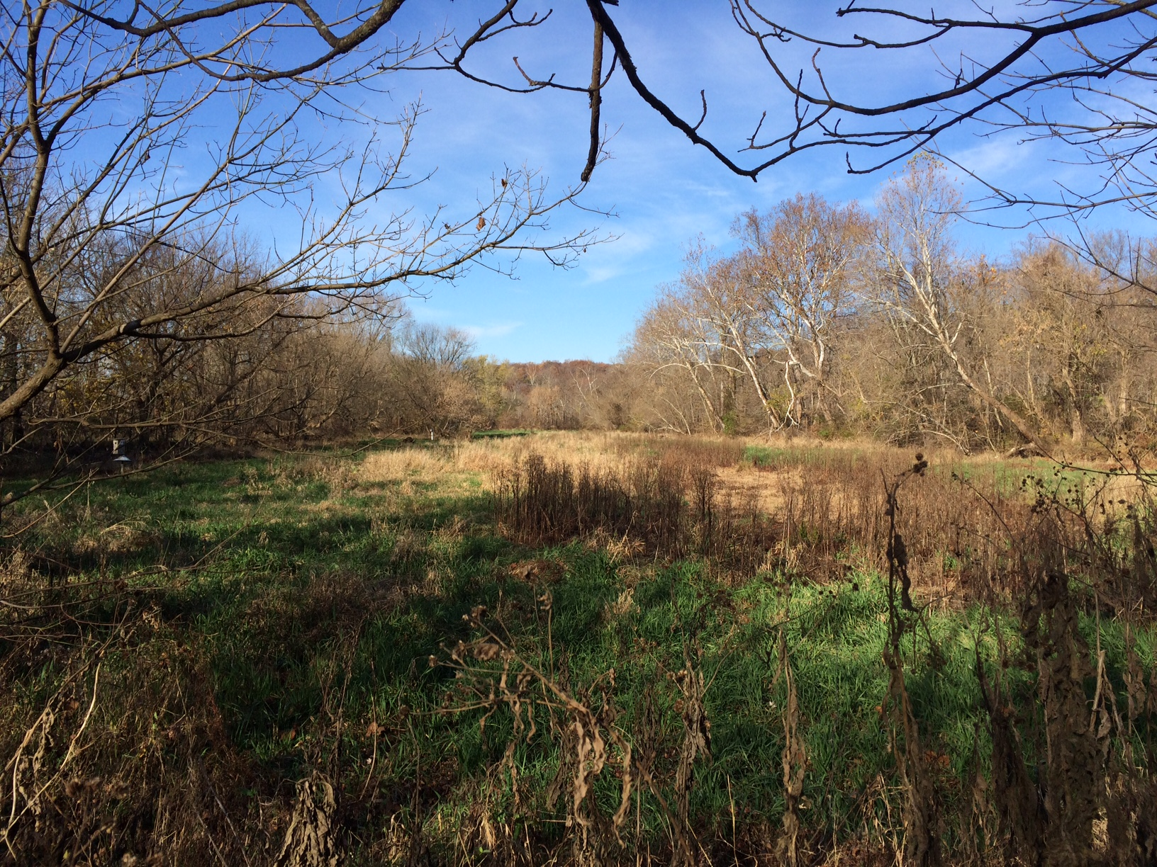 Man-made pond, just south of MP 20.0 on C&O Canal